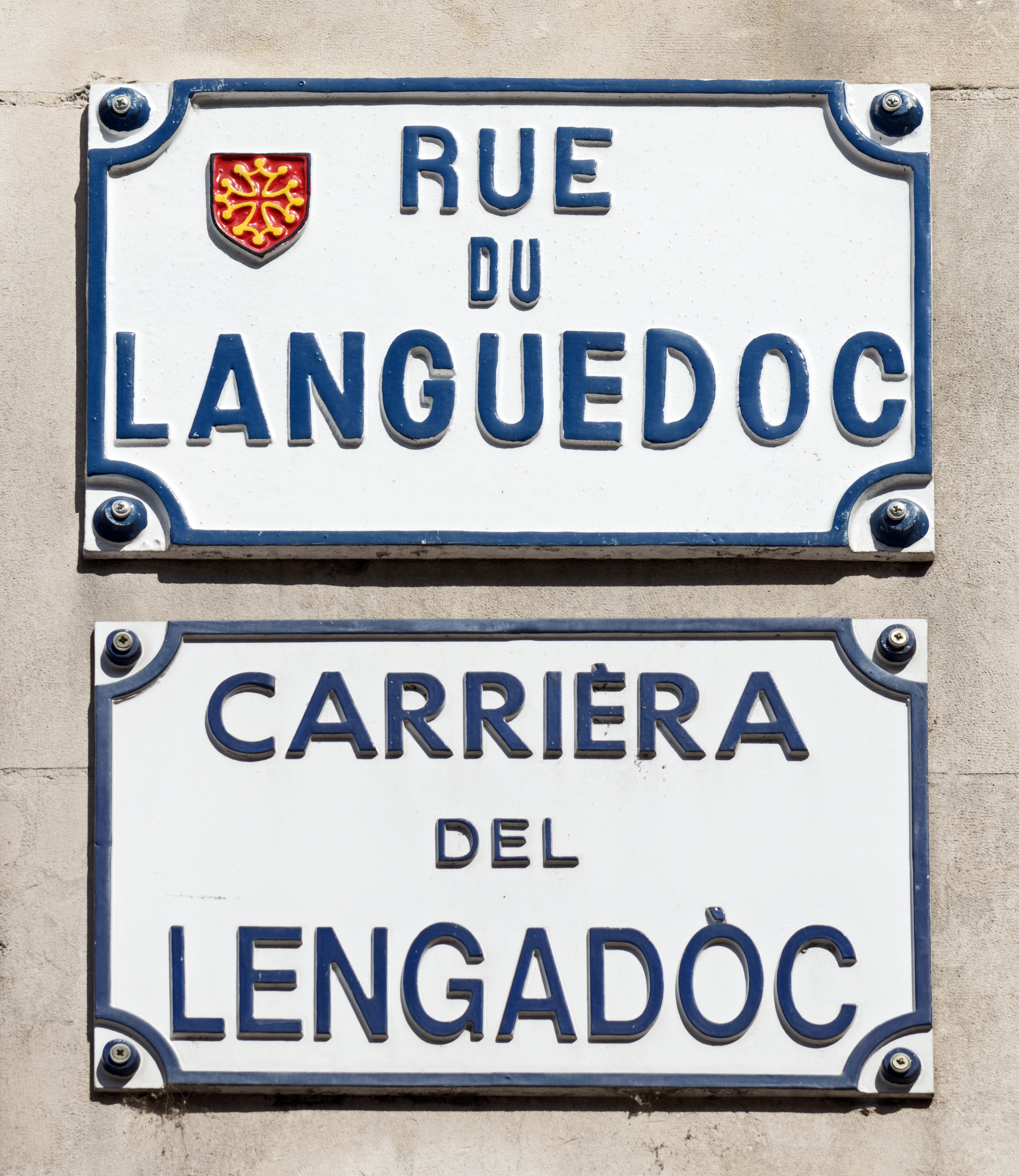 Languedoc street, in Toulouse - Street name sign. They have the particularity of being: in French and Occitan.